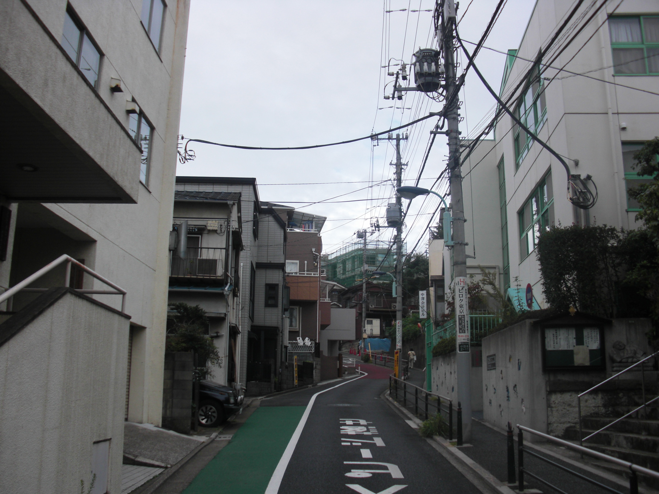 This is a landscape of Kohinata 2 chome, Bunkyo, Tokyo, Japan.